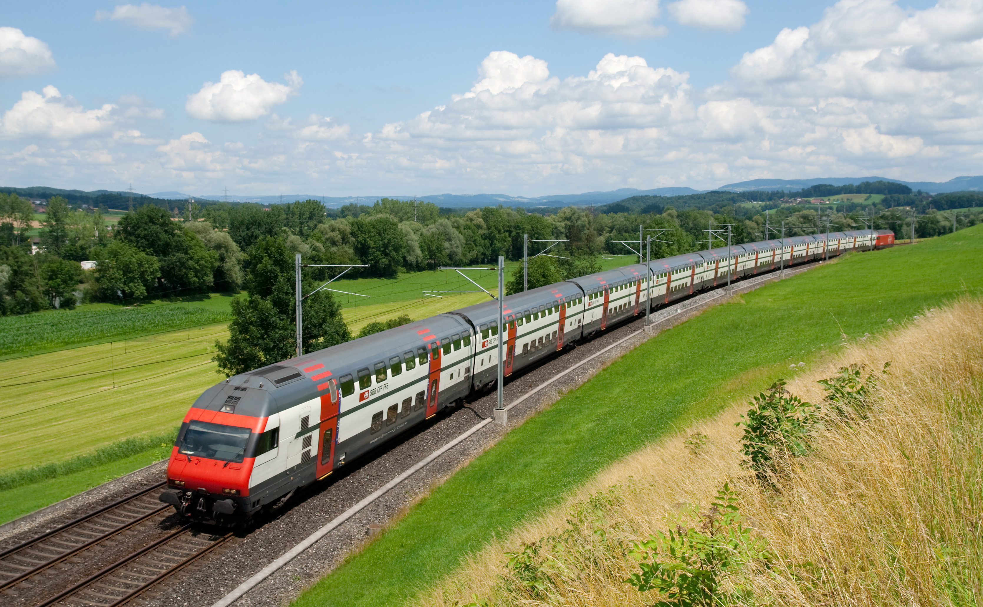 IC2000 double-decker push-pull intercity train heading towards Lucerne, after Rotkreuz.